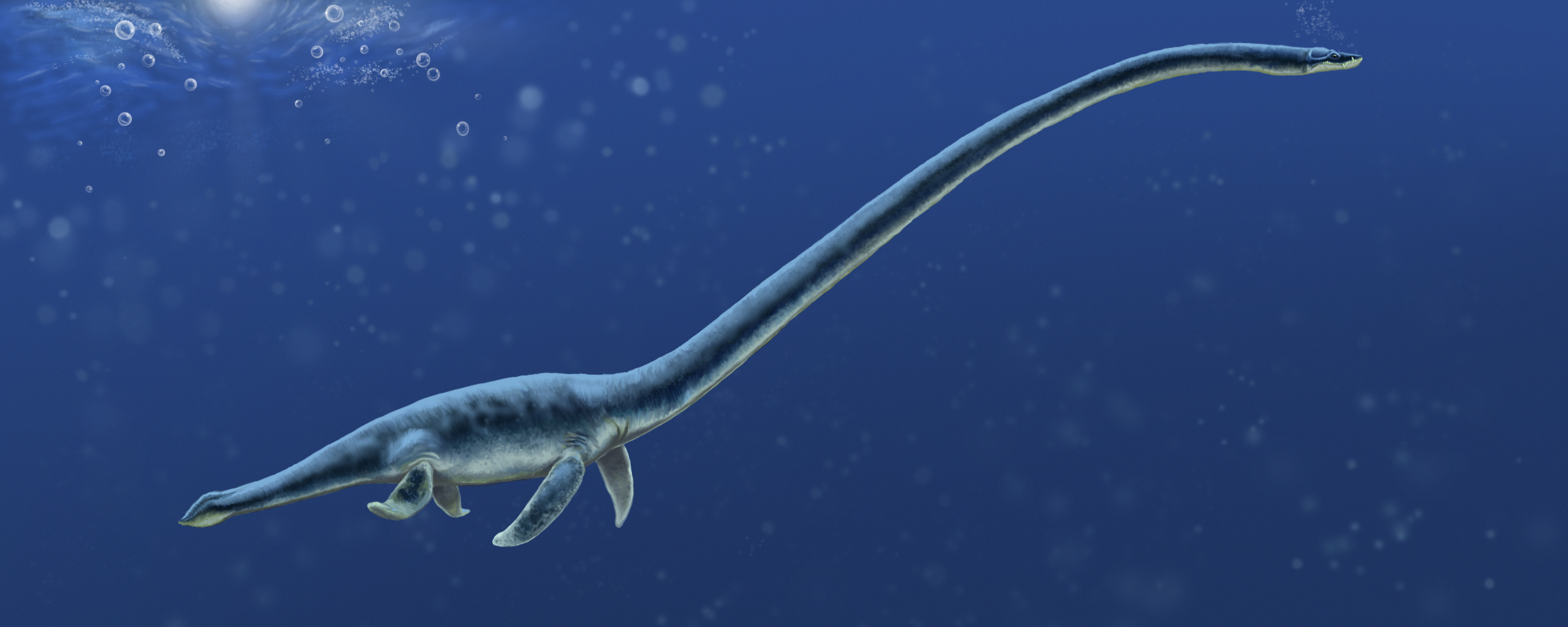 Life restoration of Albertonectes vanderveldei. Based on Figure 2 of "Albertonectes vanderveldei, a new elasmosaur (Reptilia, Sauropterygia) from the Upper Cretaceous of Alberta" by Tai Kubo, Mark T. Mitchell, and Donald M. Henderson (Journal of Vertebrate Paleontology 32(3): 557-572).